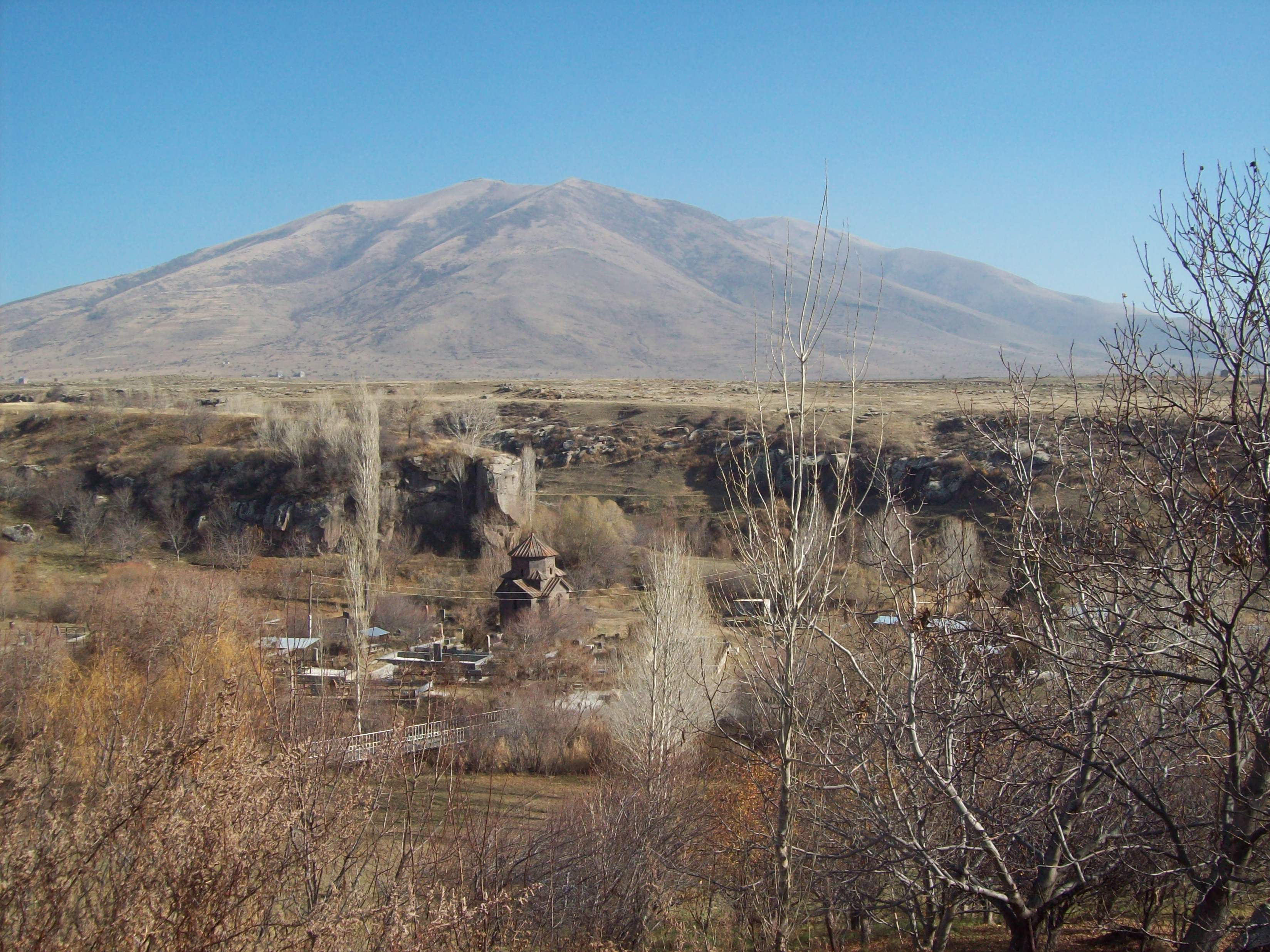 Church Surb Amenaprkich, Artashavan, 7th cent. 20/8